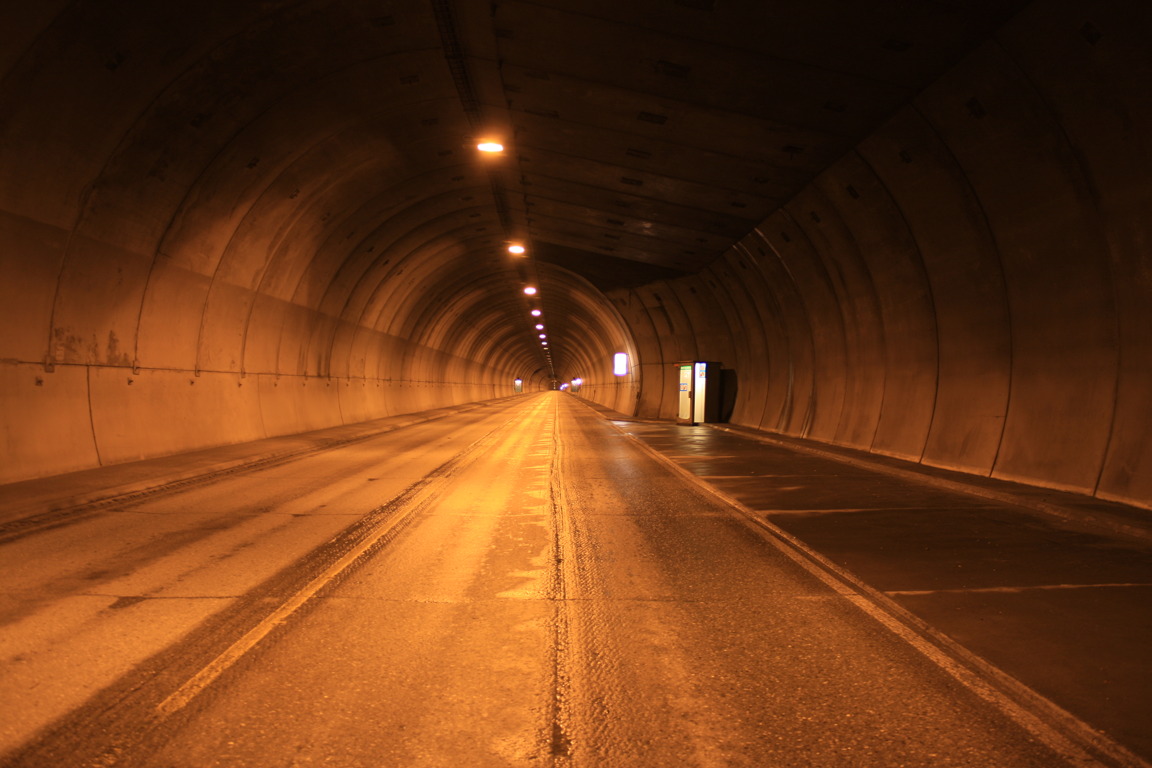 Inside Breivikatunnelen (tunnel), the picture is taken facing south.